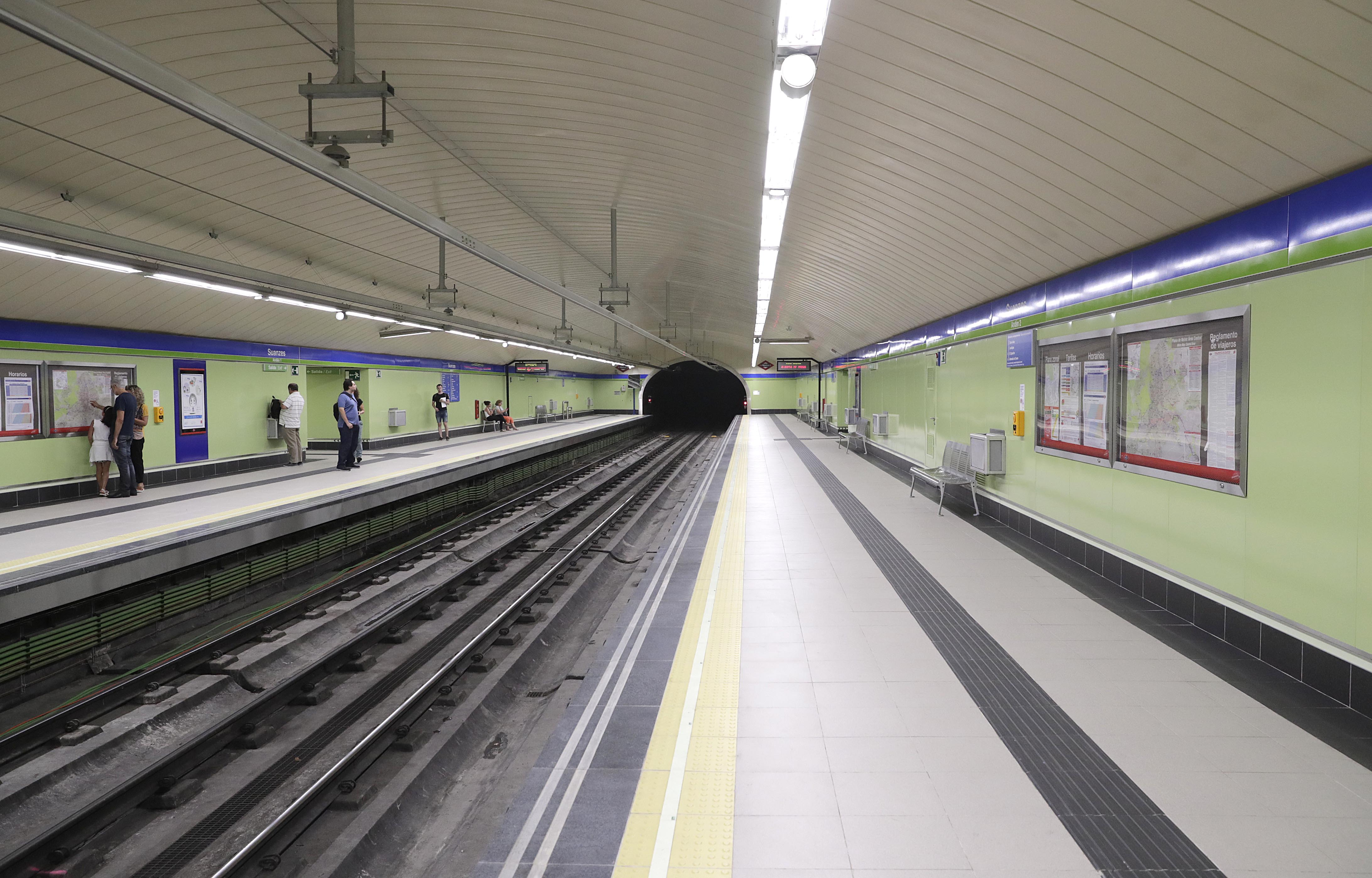 Estación de Suances en la Línea 5, una de las estaciones remodeladas del Plan de Modernización de Metro de Madrid, tras dos meses de obras.